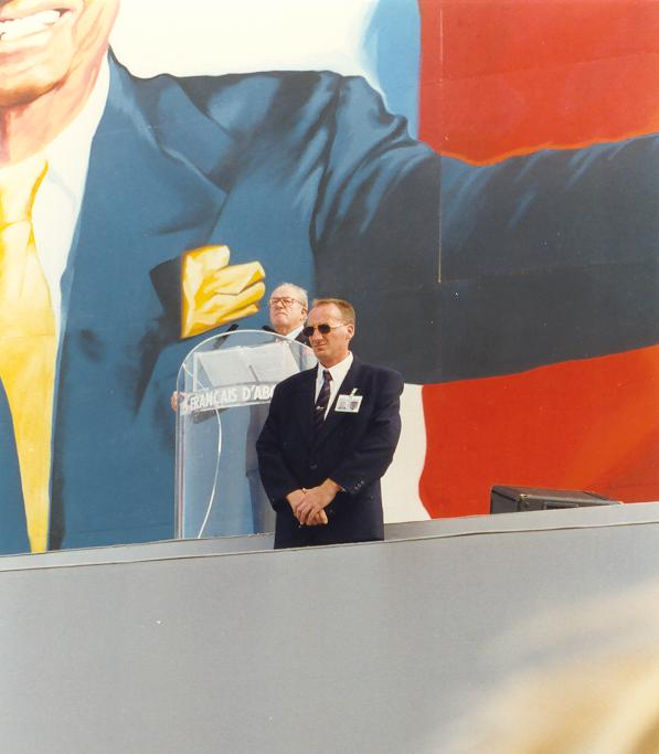 French National Front rally